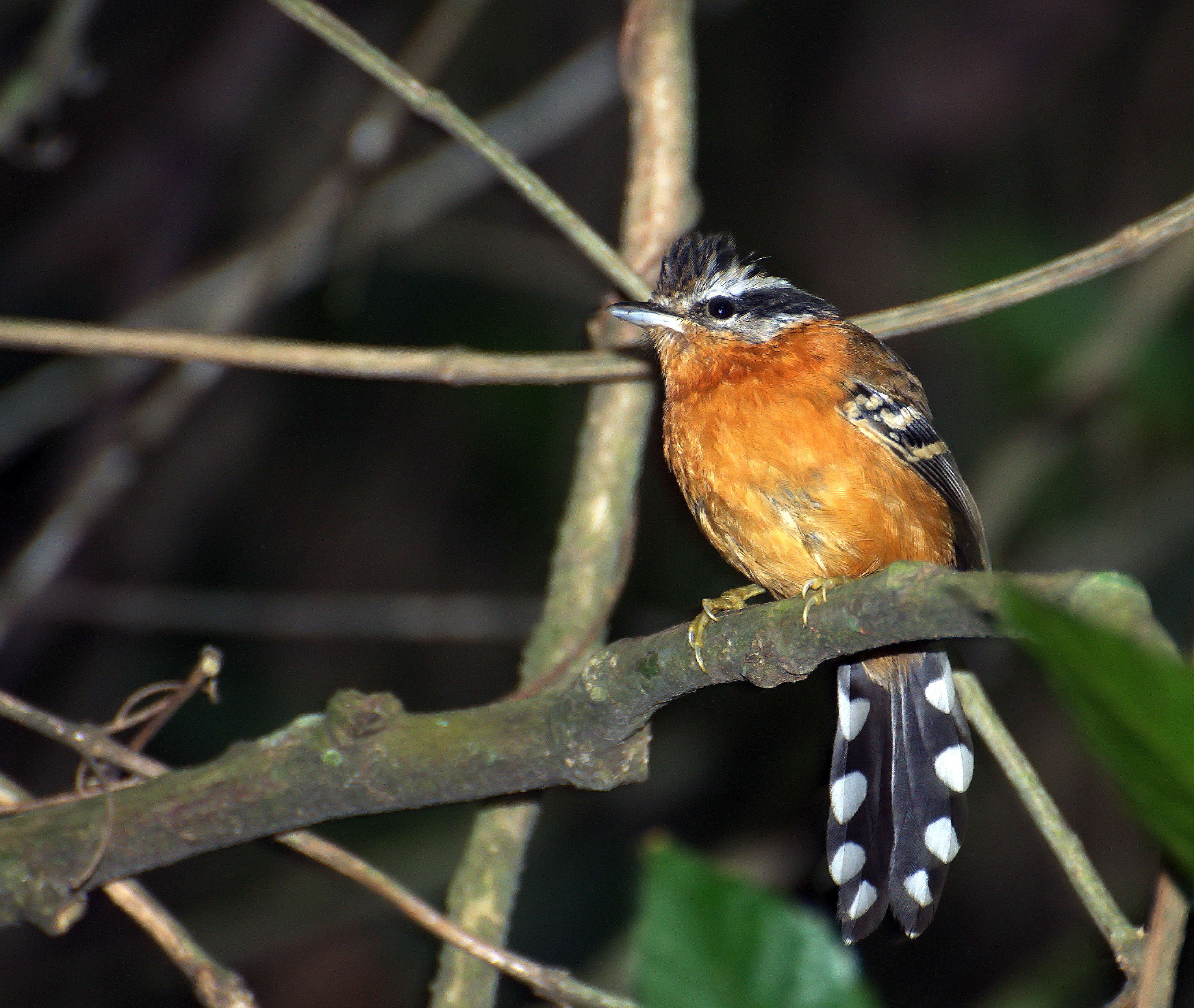 A female Ferruginous Antbird in Serra da Cantareira State Park, São Paulo, Brazil.